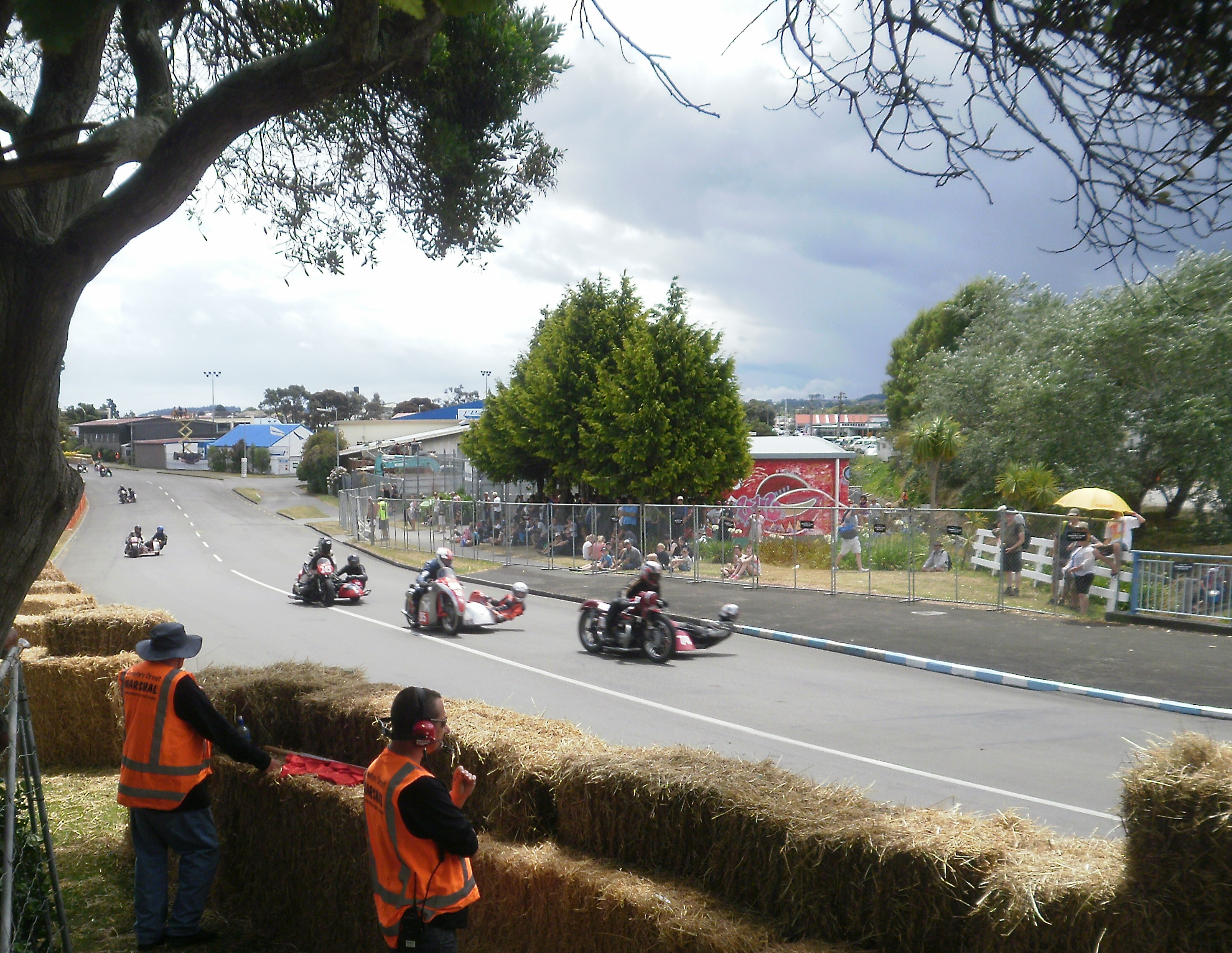 Motorcycle sidecar racing at the 2012 Cmetery Circuit racing in Wanganui, New Zealand